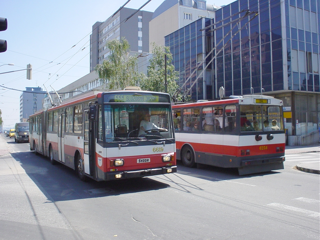 Slovakia; Bratislava; Public Transfer